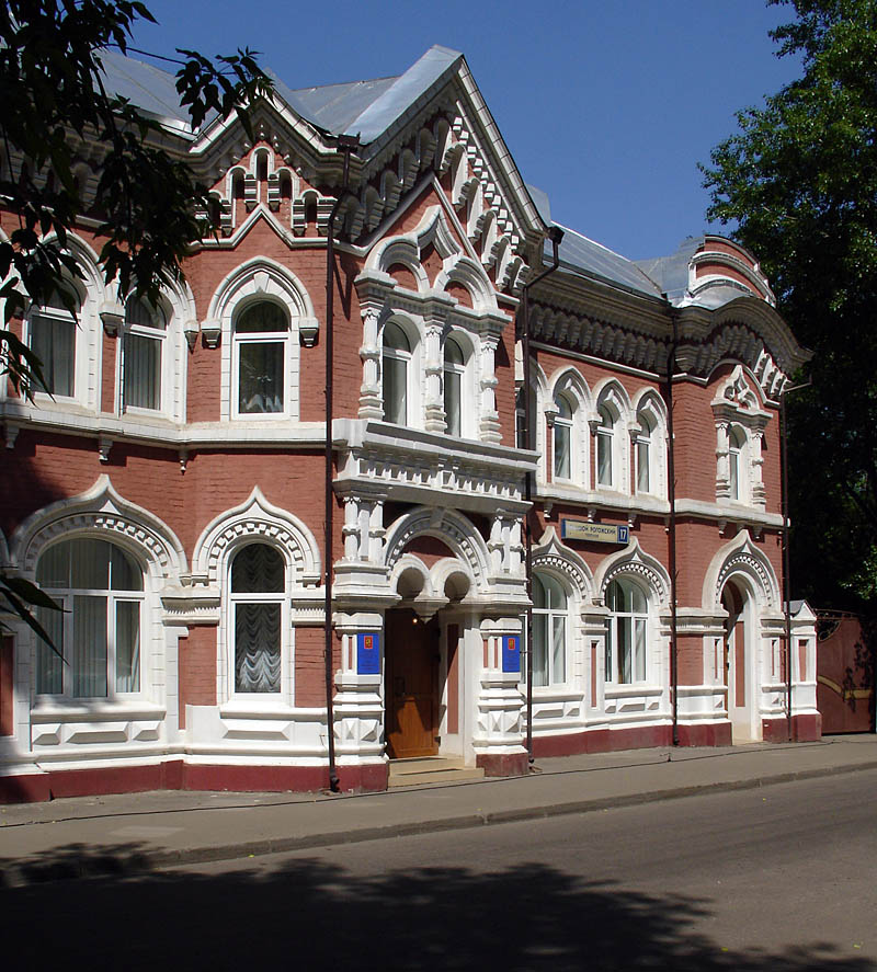 Bolshoy Rogozhsky Lane, Moscow - Rogozhskaya Clinic, 1903 (present-day Food Service Museum). Architect: N.N.Blagoveshensky (Благовещенский Николай Николаевич) 1867-13.11.1926. See also historical photo Image:Moscow, Rogozhskaya Clinic, N.N.Blagoveschensky, 1903.jpg